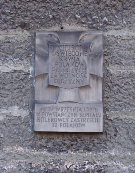 Plaque at 8 Drewniana Street in Warsaw (School Building), commemorating 22 Warsaw Insurgents – patients of military hospital which was located in this building – executed by German troops on 27th September 1944.